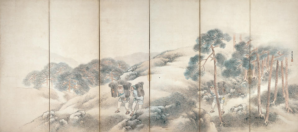 Japan; Screens; Screens